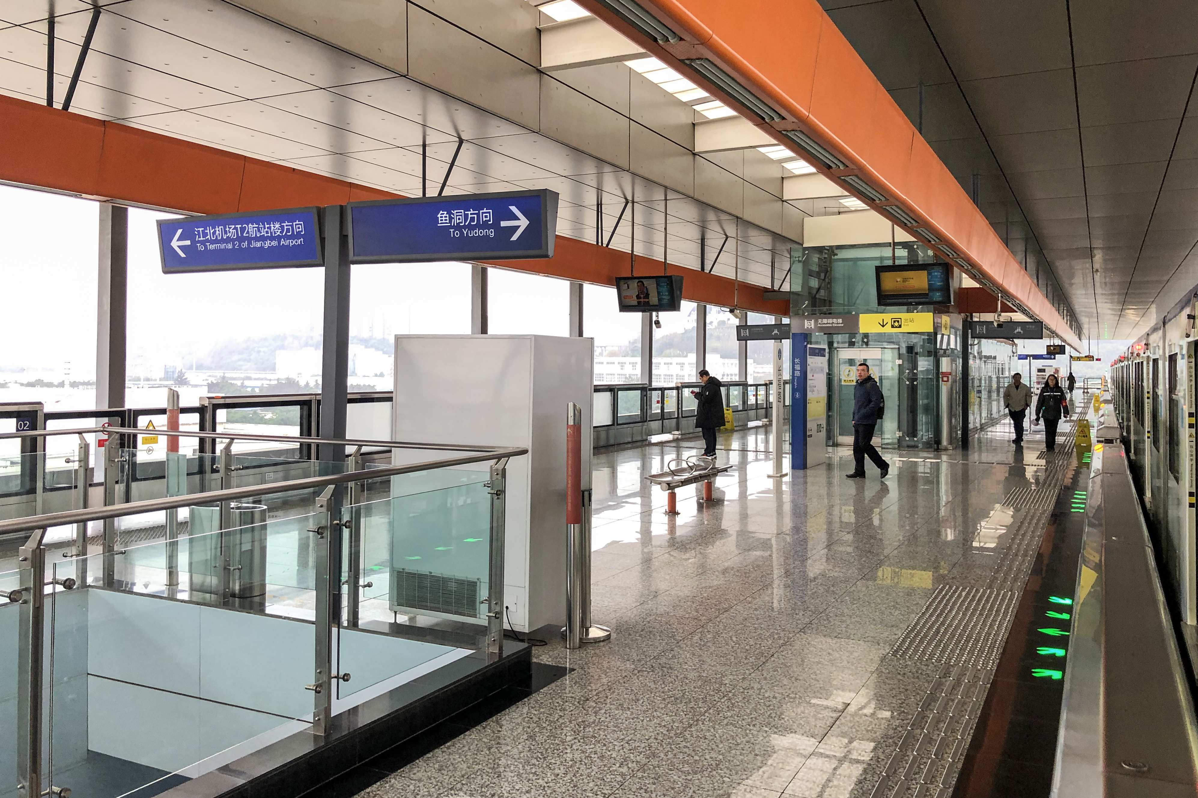 Changfu Road... well, Chang'an Ford Road.